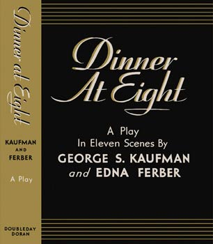 Front cover and spine of the dust jacket for the first edition of Dinner at Eight